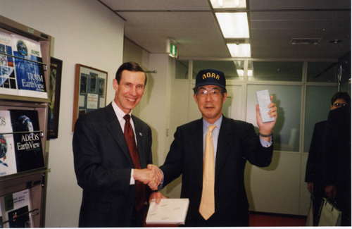 Conrad C. Lautenbacher, Administrator of the National Oceanic and Atmospheric Administration, met Shūichirō Yamanouchi, President of the National Space Development Agency of Japan, in Japan in 2002.